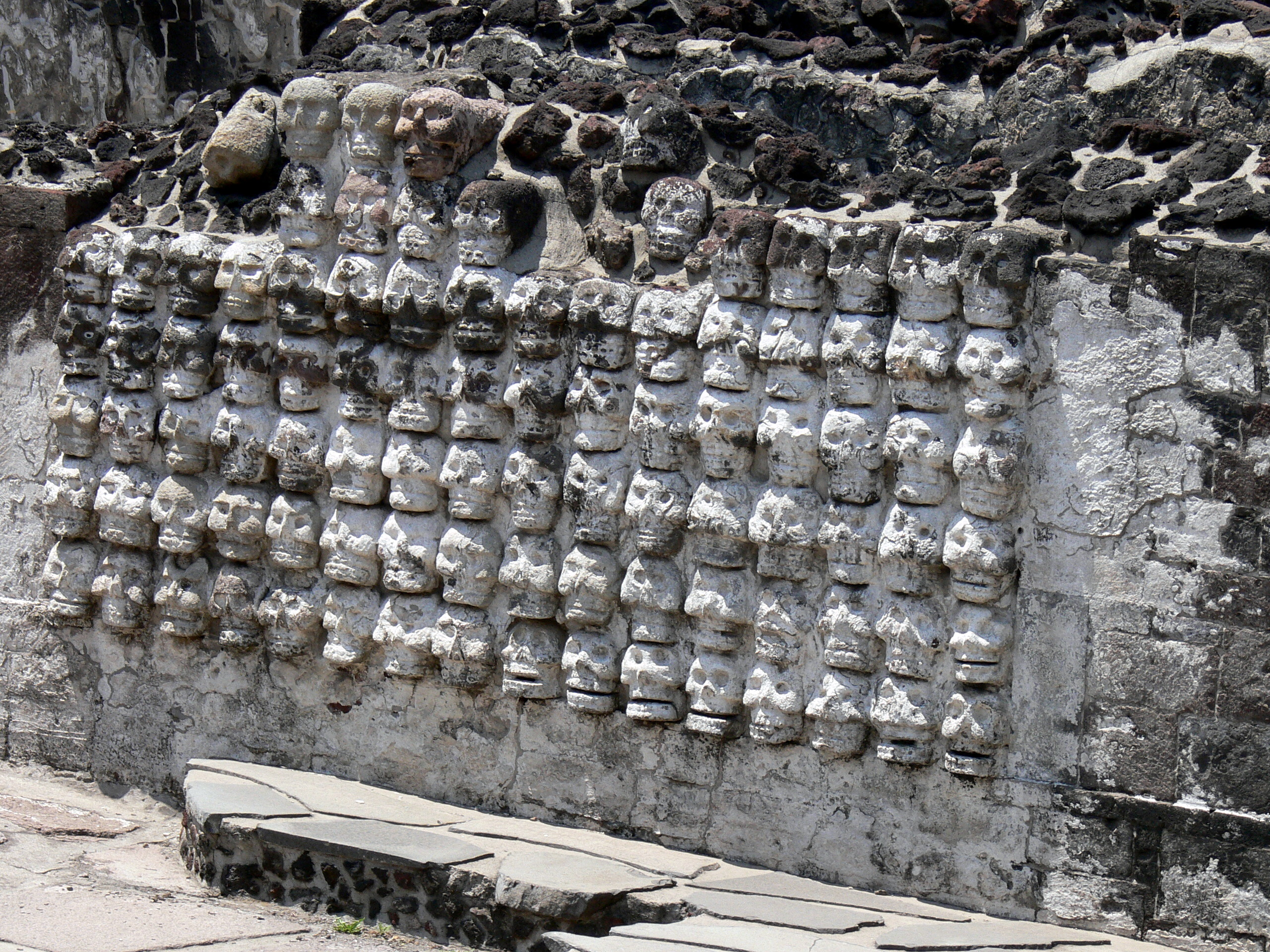 Templo Mayor in Mexico City. Tzompantli ( skull wall ) with 240 skulls ( 1500 )